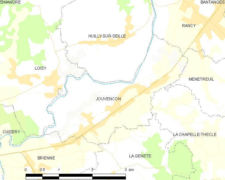 Map of French municipality